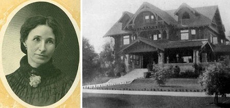 Emma Summers and her mansion on Wilshire Boulevard. From Sunset Magazine, July 1911, courtesy GeoExPro.